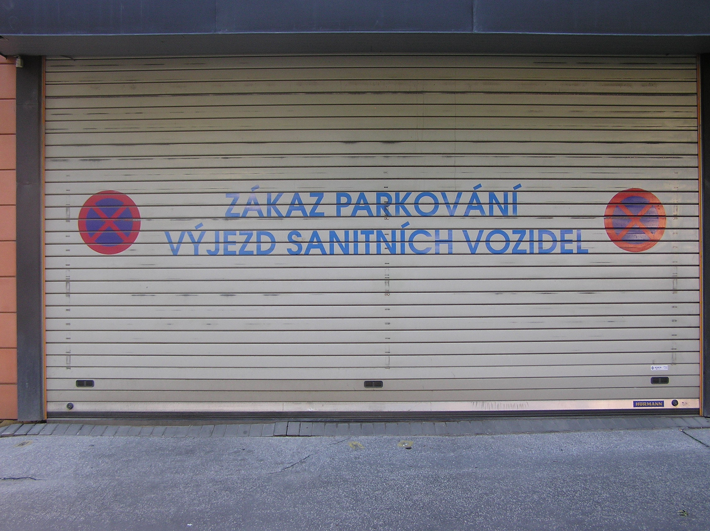 Regional center and station of the Emergency Medical Service of Olomouc Region, Czech Republic Česky: Garáže výjezdového stanoviště a Územního střediska záchranné služby Olomouckého kraje v centru Olomouce